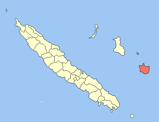 Location of commune and island of Maré (in red) within New Caledonia